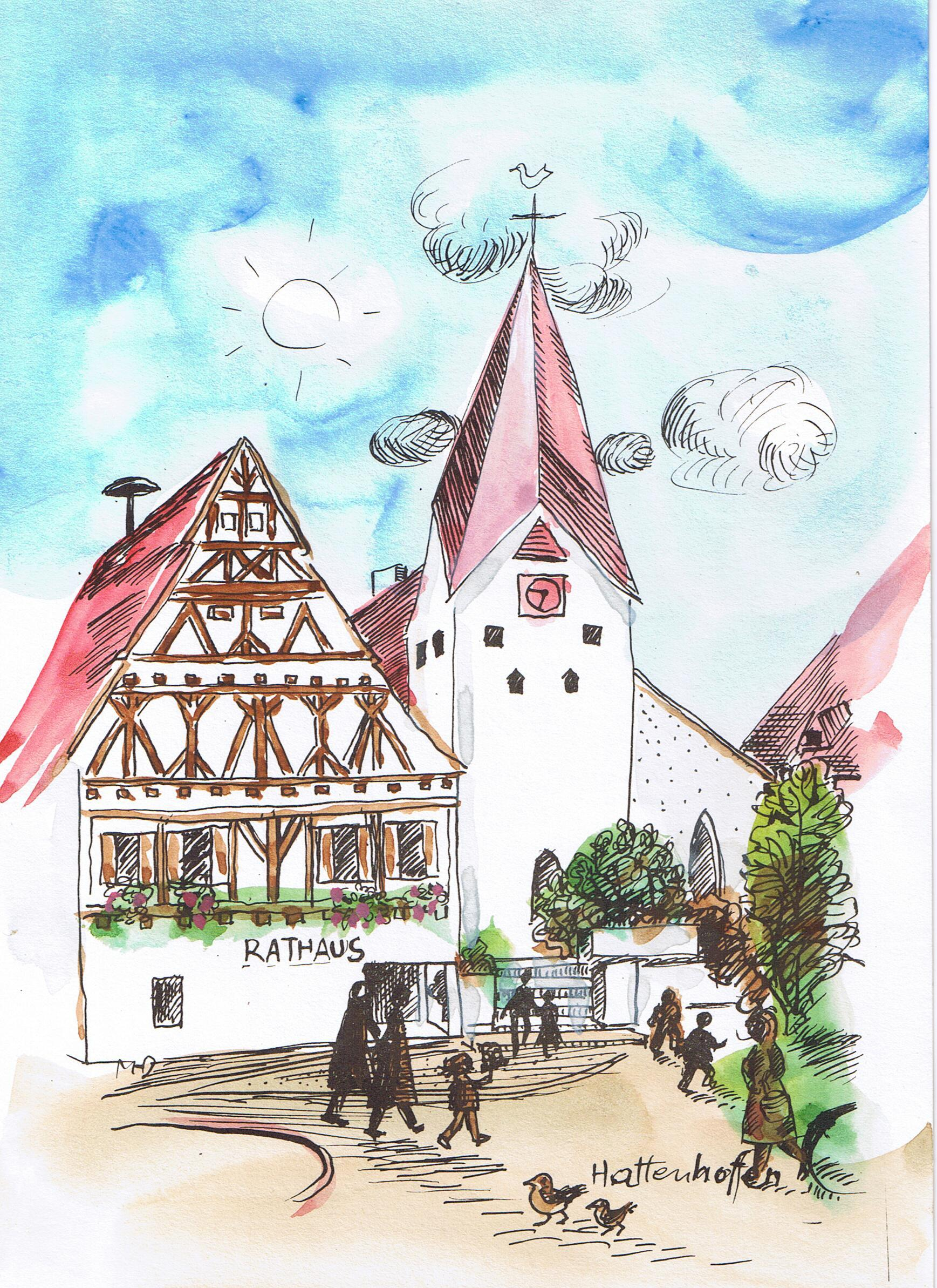 Hattenhofen, water color, 15 x 20 cm